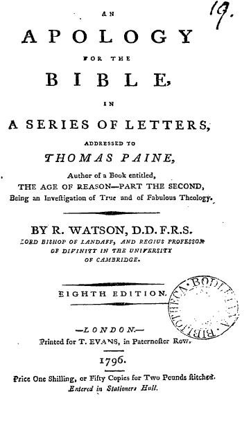 "An Apology for the Bible" title page